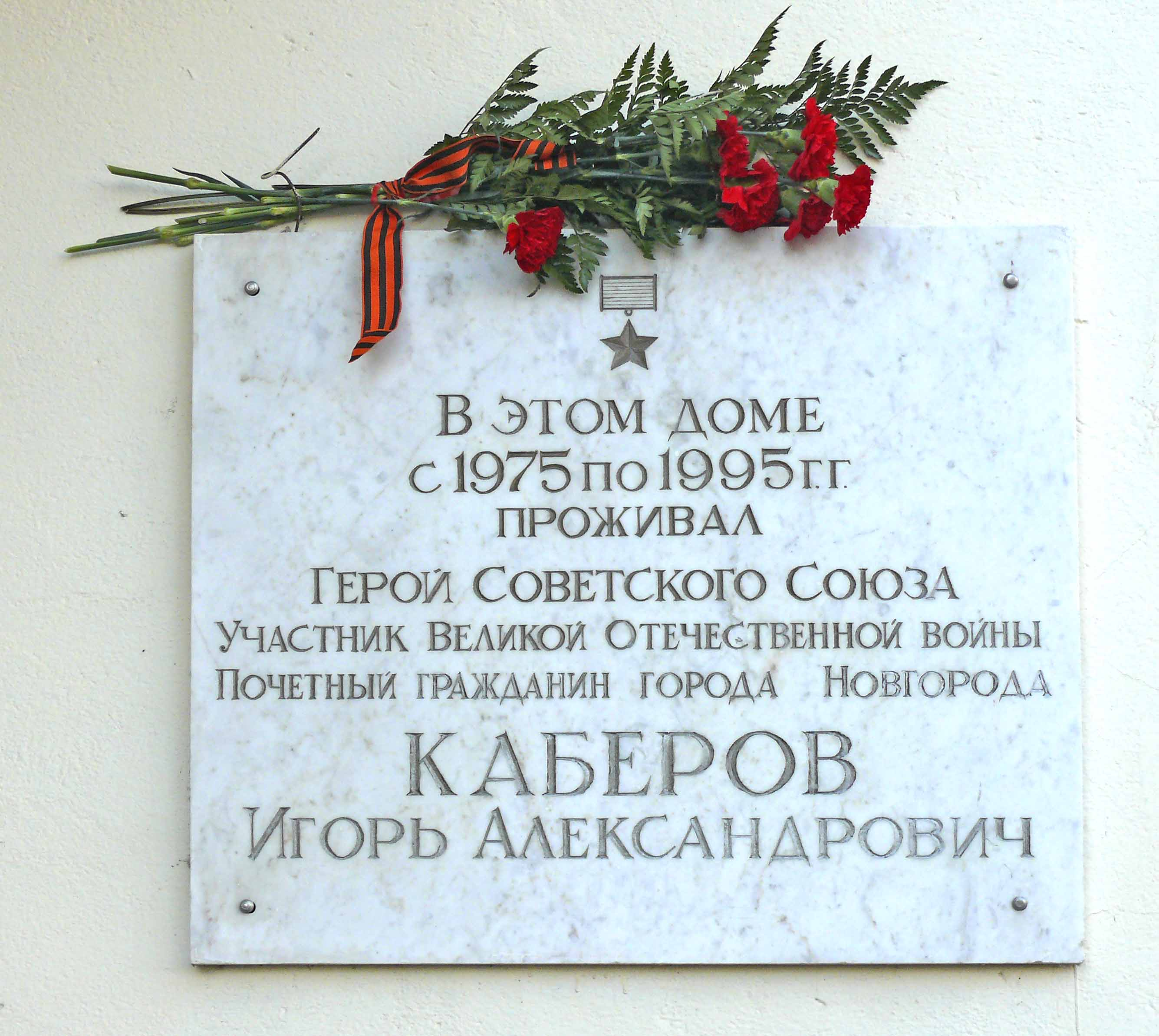 Memory plaque on the military pilot Ivan Kaberov house